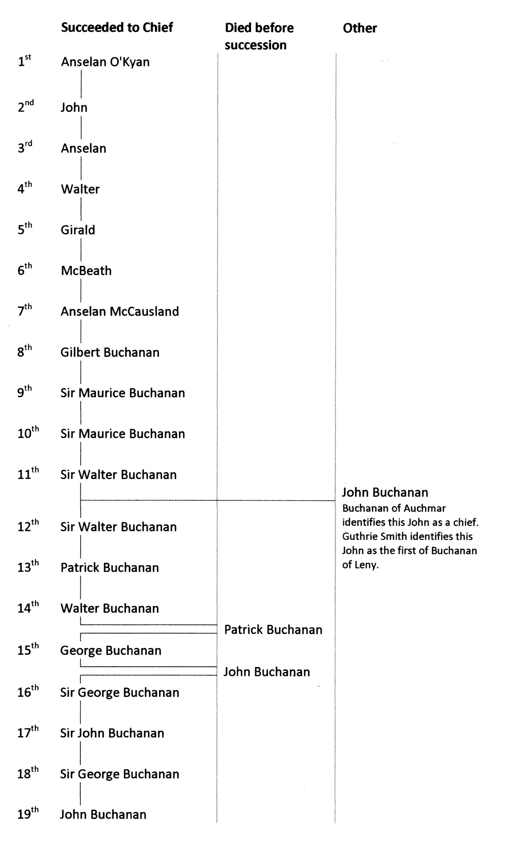 Depicts a synthesis of the Clan Buchanan succession of chiefs as described by the two main Clan historians, William Buchanan of Auchmar and Guthrie Smith